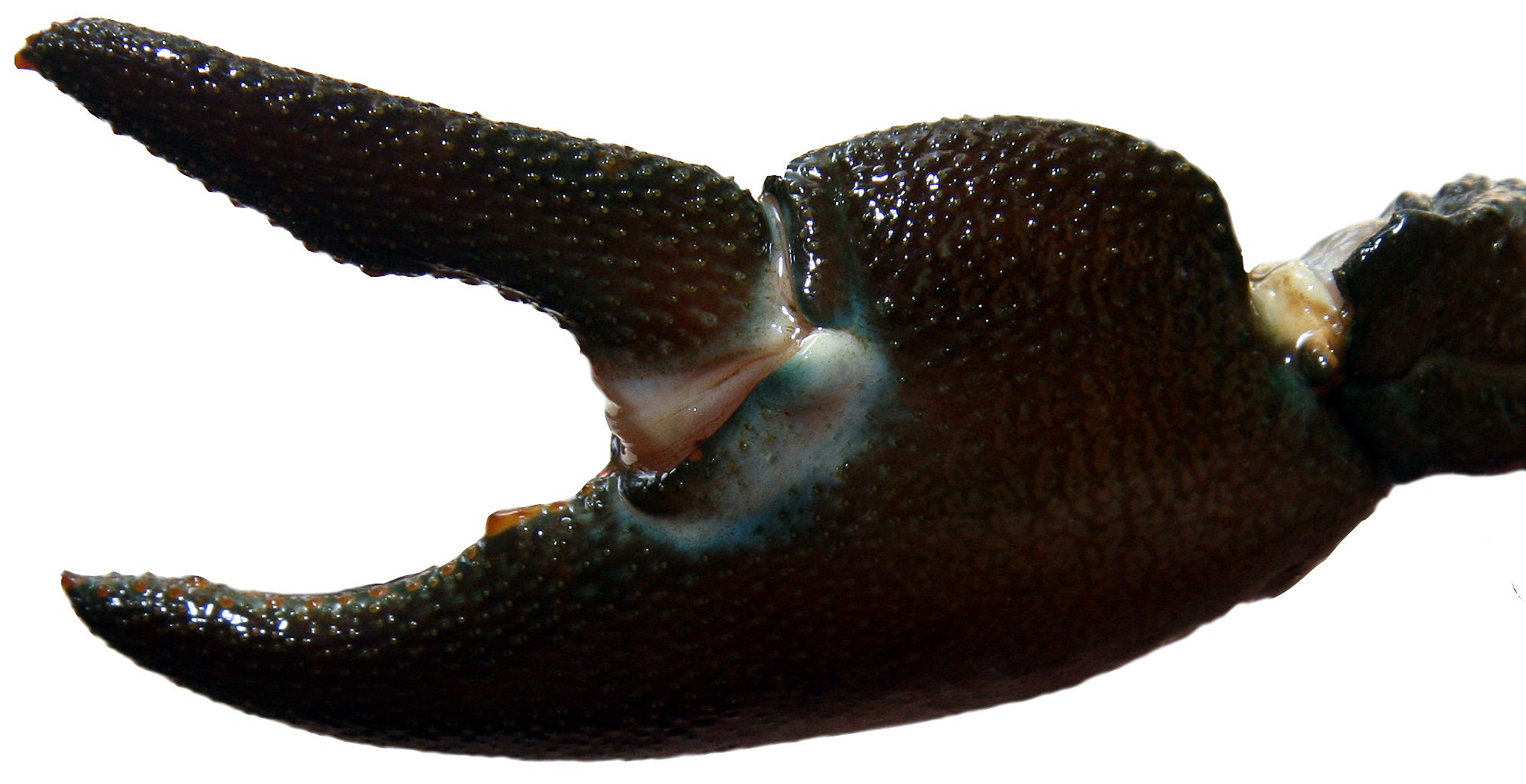 The claw of a signal crayfish, clearly showing the signal mark on the joint.